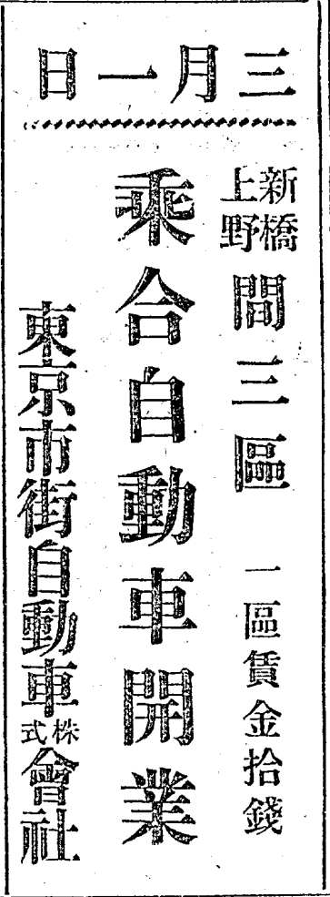 Advertisement of Tokyo Noriai Jidousha